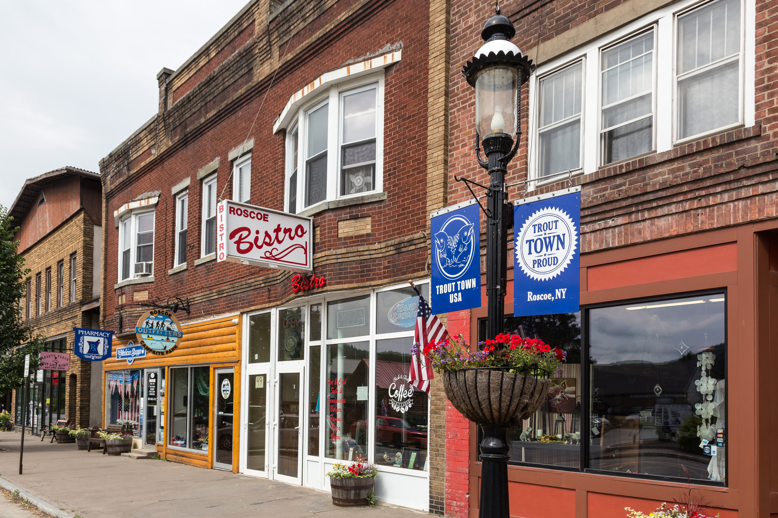 Looking down Stewart Avenue, the main street of Roscoe, New York